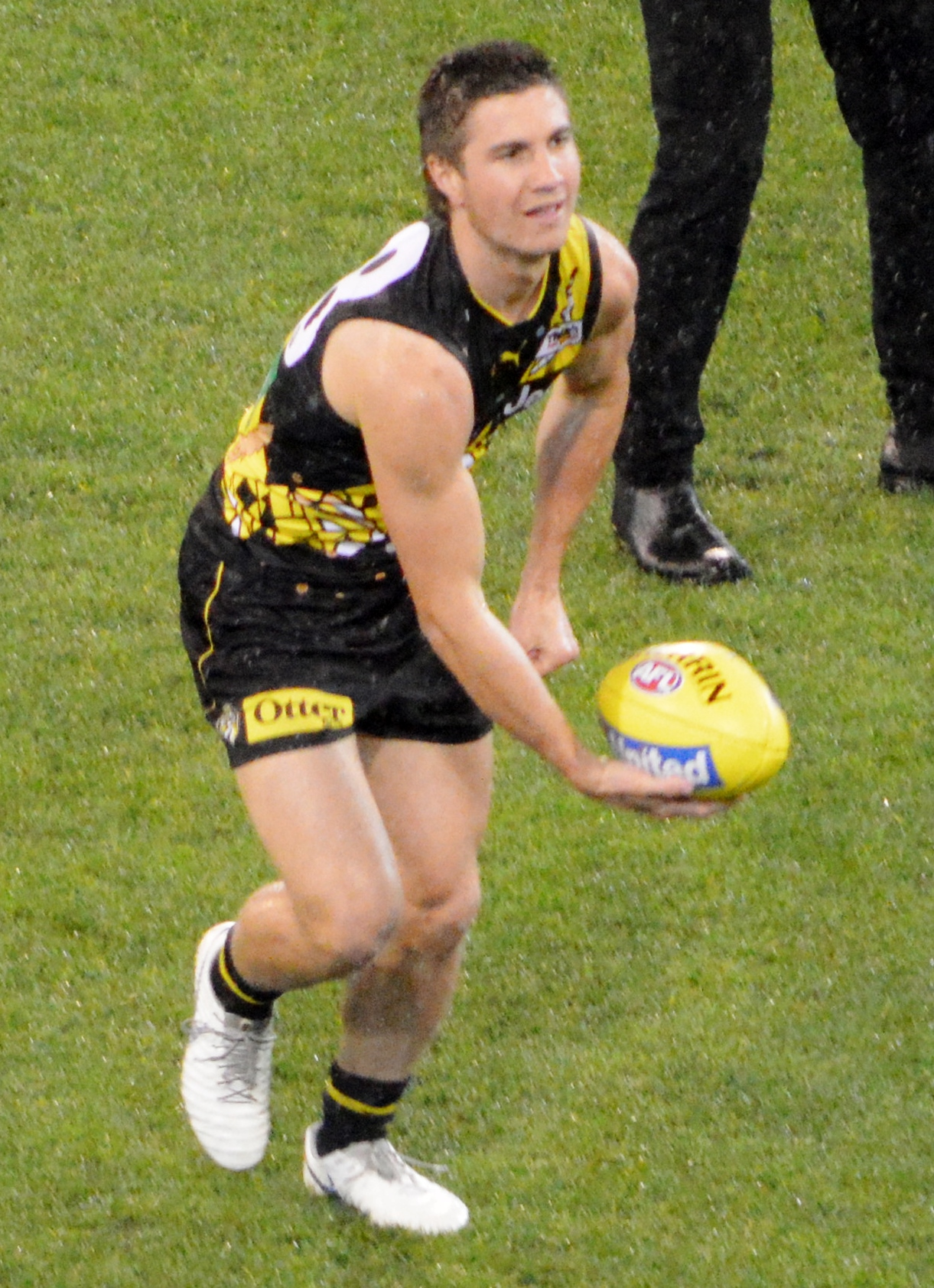 Liam Baker with Richmond in the round 10 Dreamtime at the 'G AFL match against Essendon at the MCG on 25 May 2019.